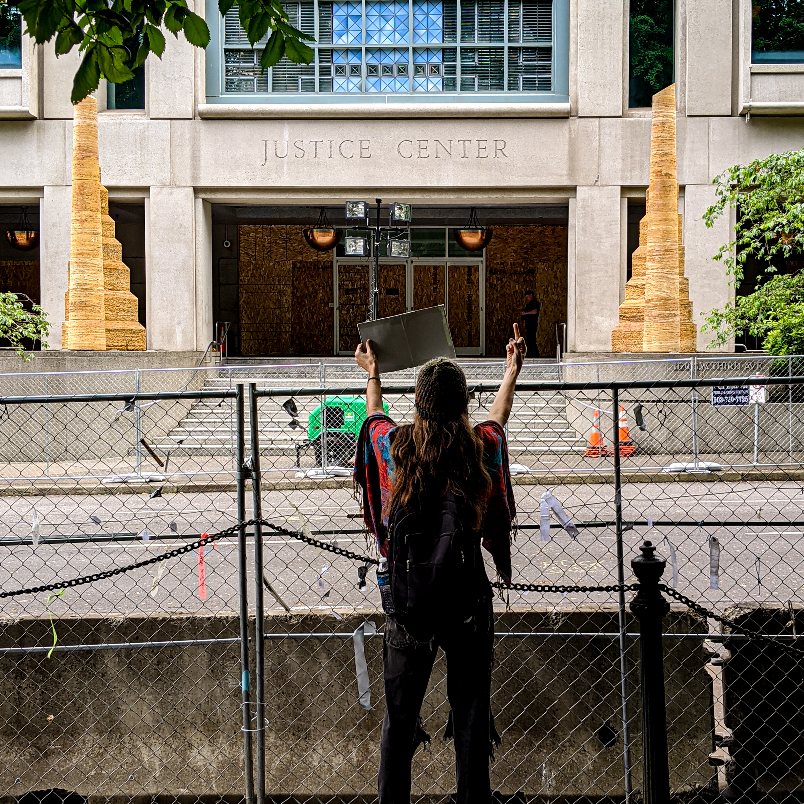 Protester in front of the Multnomah County Justice Center during George Floyd protests in Portland, Oregon.